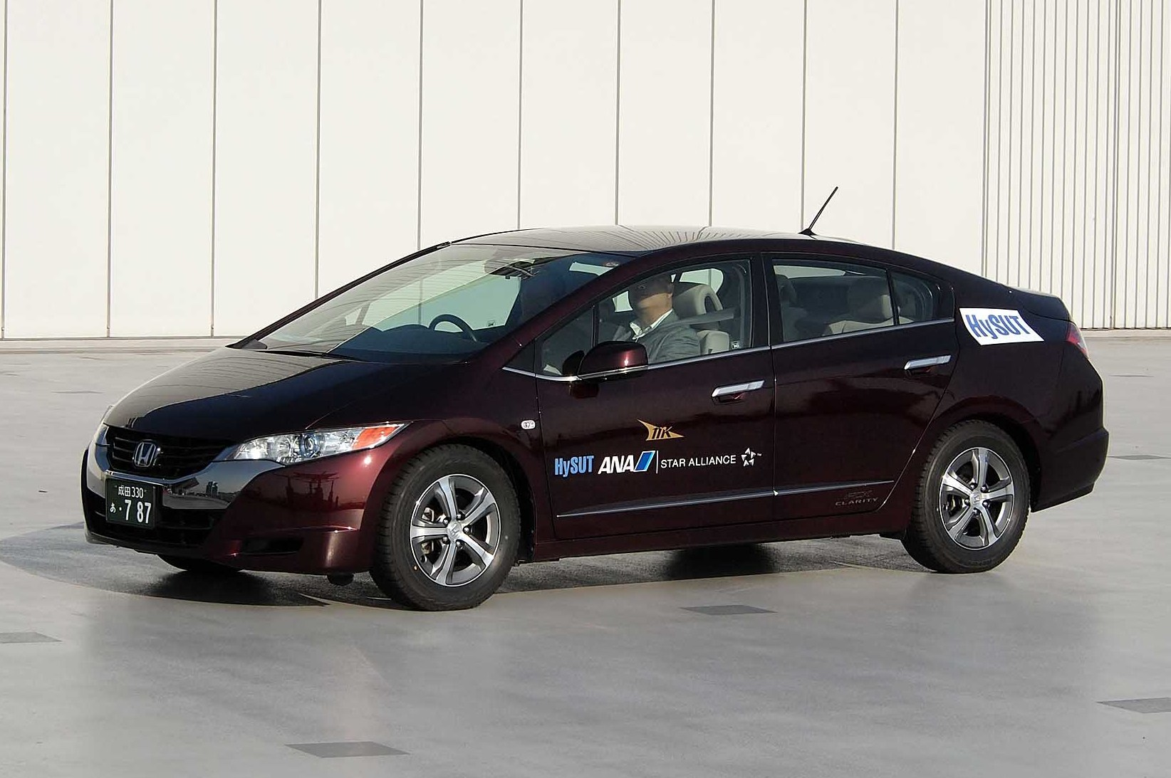 Fleet of Manzaki Kotsu, demonstrater as hire from Narita airport under HySUT. Model: Honda FCX Clarity License plate: CBR330 A-787 Place: Tokyo Big Sight, Koto Ward, Tokyo Japan